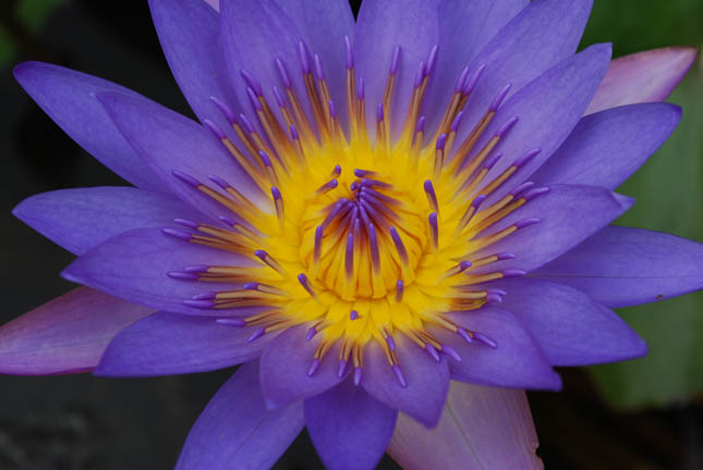 A purple coloured lily in Kuala Lumpur Orchid Park.